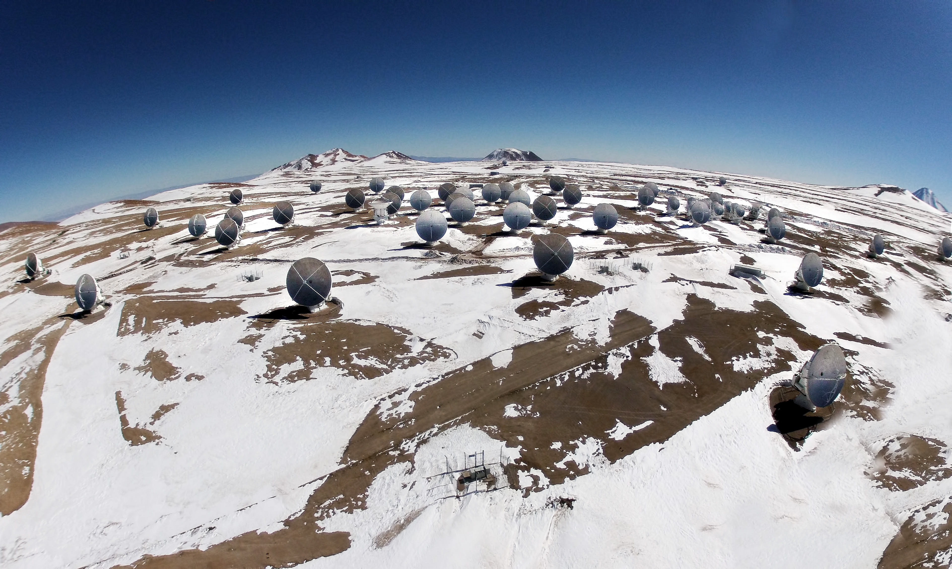 This spectacular view of ALMA was taken from a small remote-controlled hexacopter using a camera weighing just 200 grams. It is one of the first aerial images of the array taken since its inauguration in March 2013. These flights may have established a new altitude record for this type of helicopter, which was designed to operate much closer to sea level.